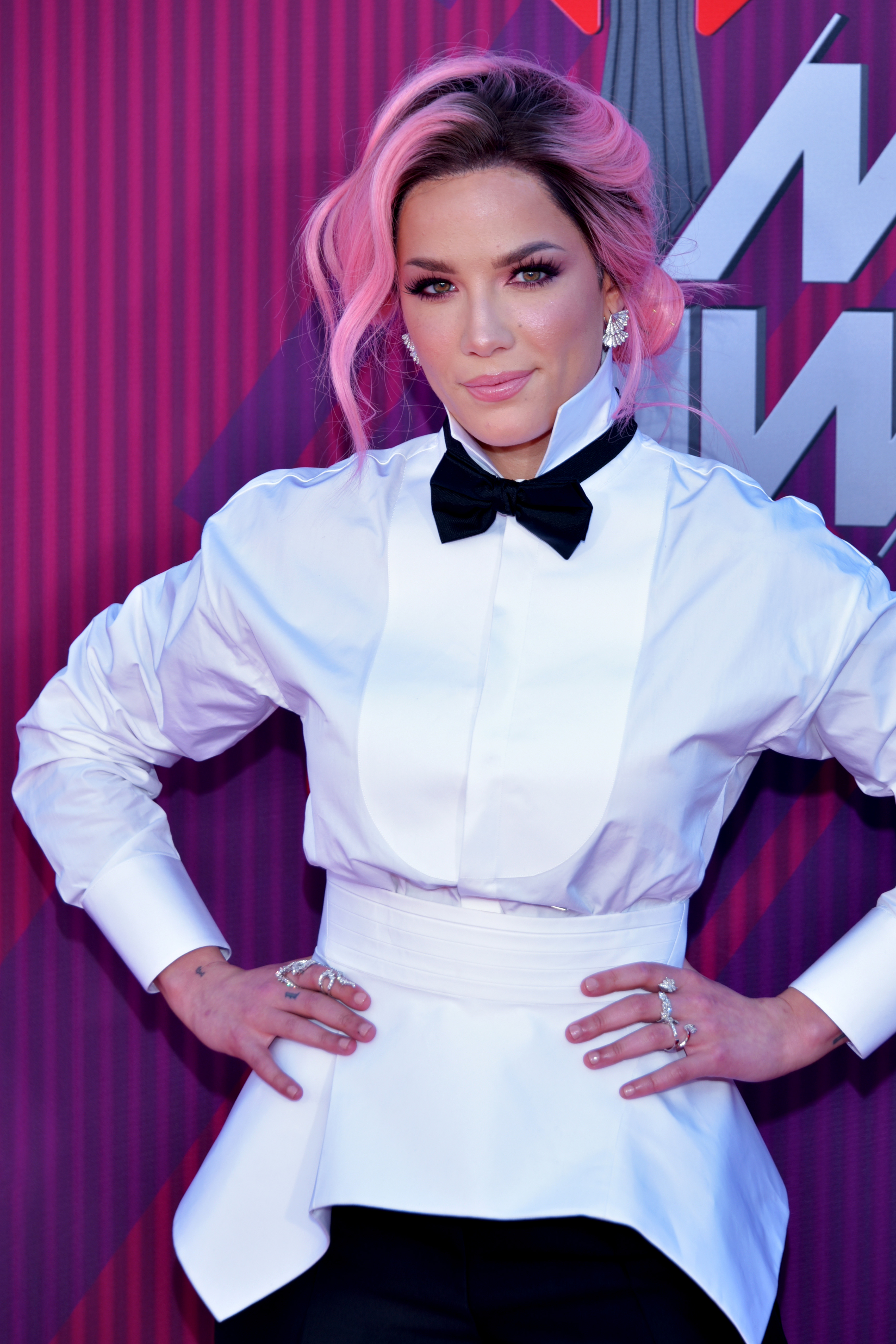 Halsey at the 2019 iHeartRadio Music Awards in Los Angeles California - Photo by Glenn Francis of